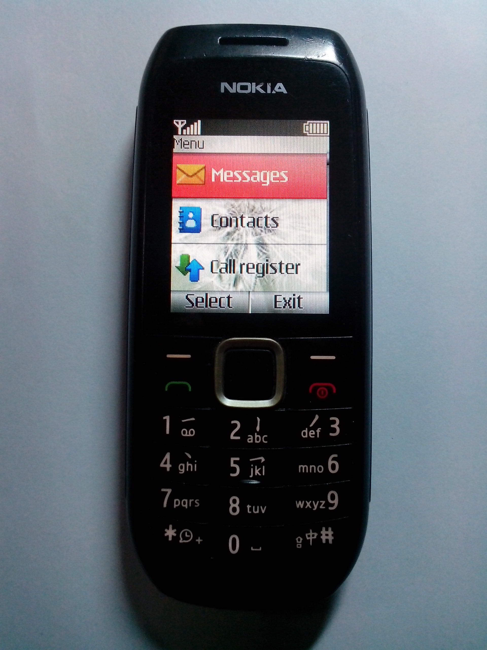 Nokia 1616